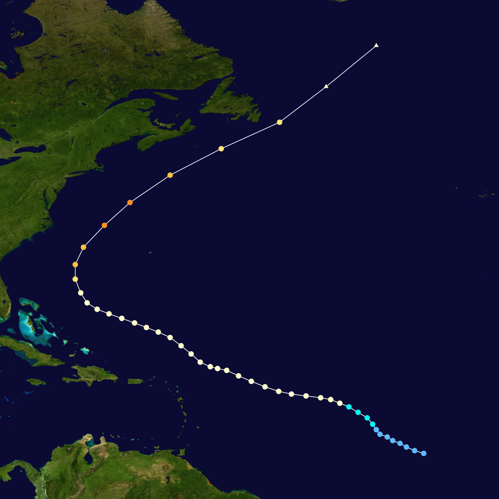 Hurricane Gladys (1975) track. Uses the color scheme from the Saffir-Simpson Hurricane Scale.